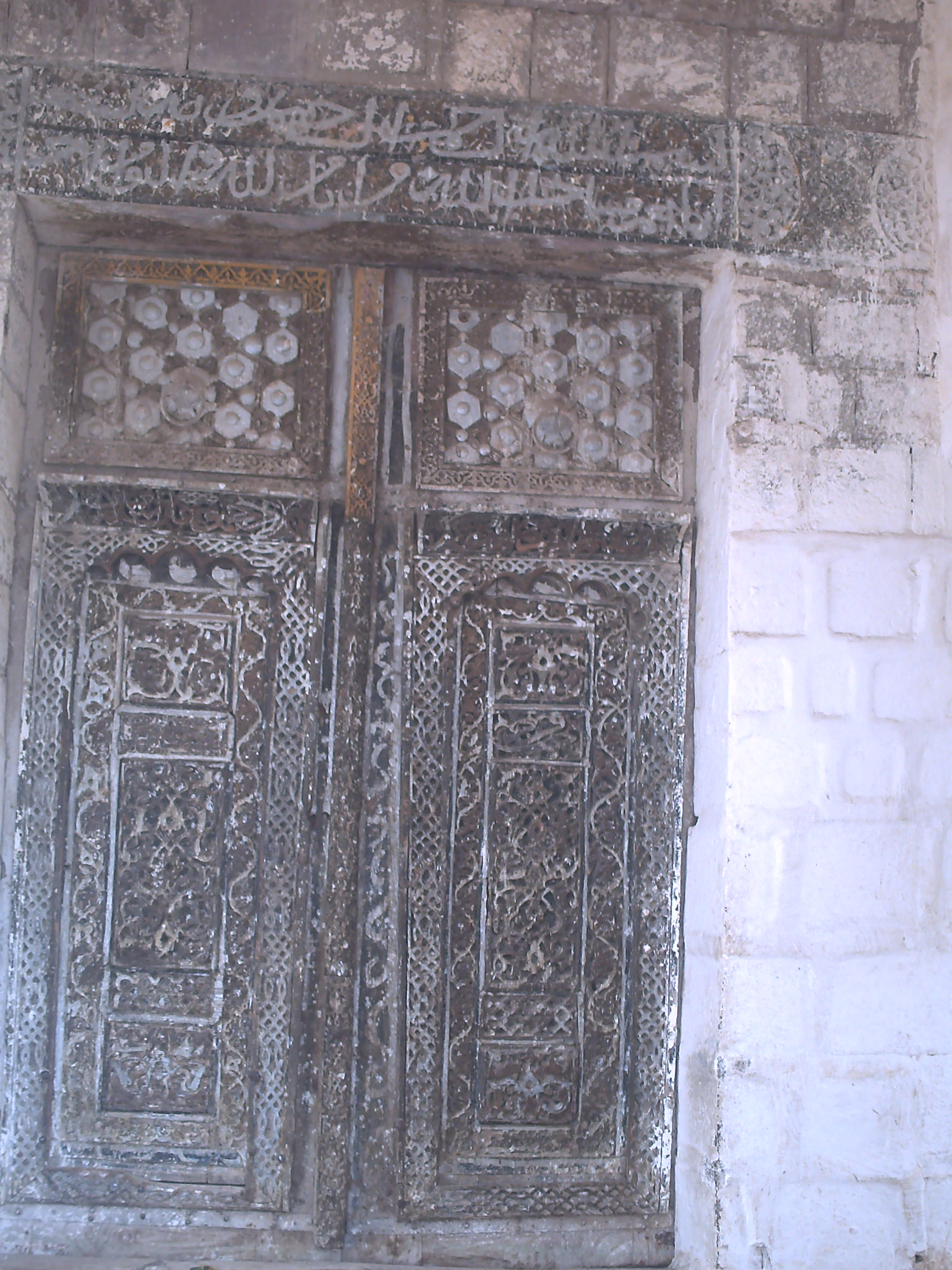 Carved historical entrance of Hurrat-ul-Malaika Mosque, Jibla.